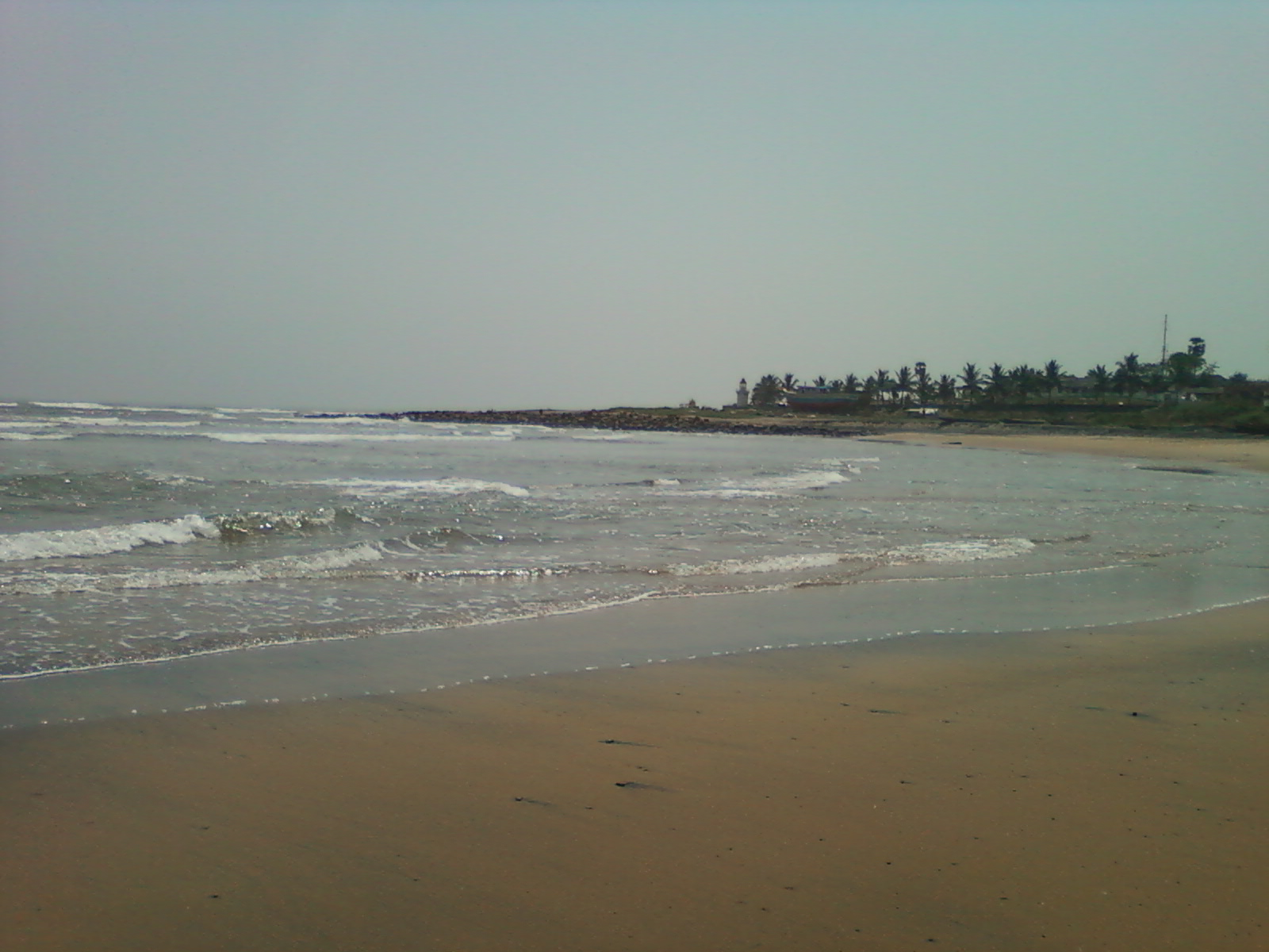 This is the North side view of Bhimili Beach, where the river Gosthani Confluences with Bay of Bengal in AP INDIA